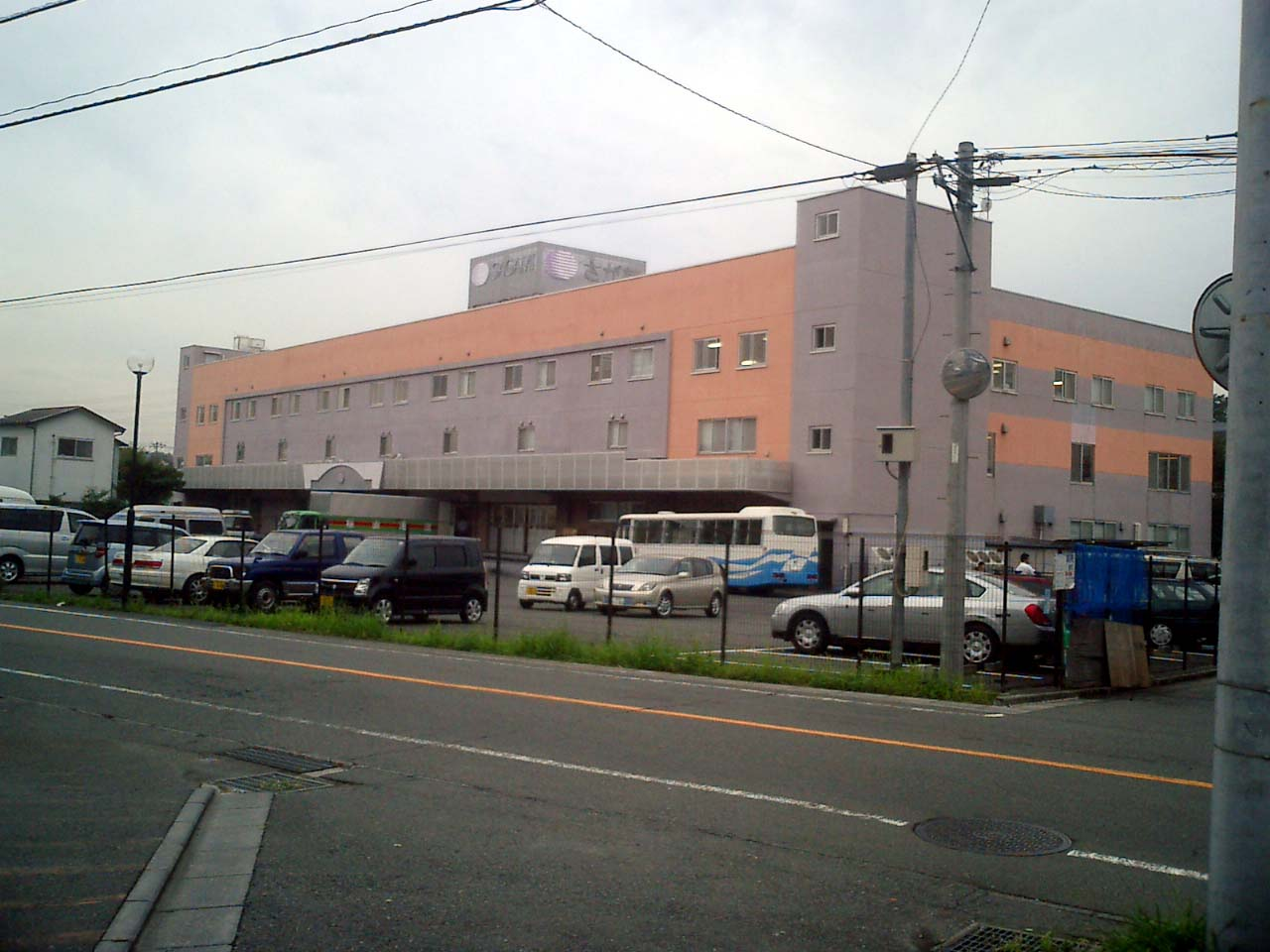 sagami